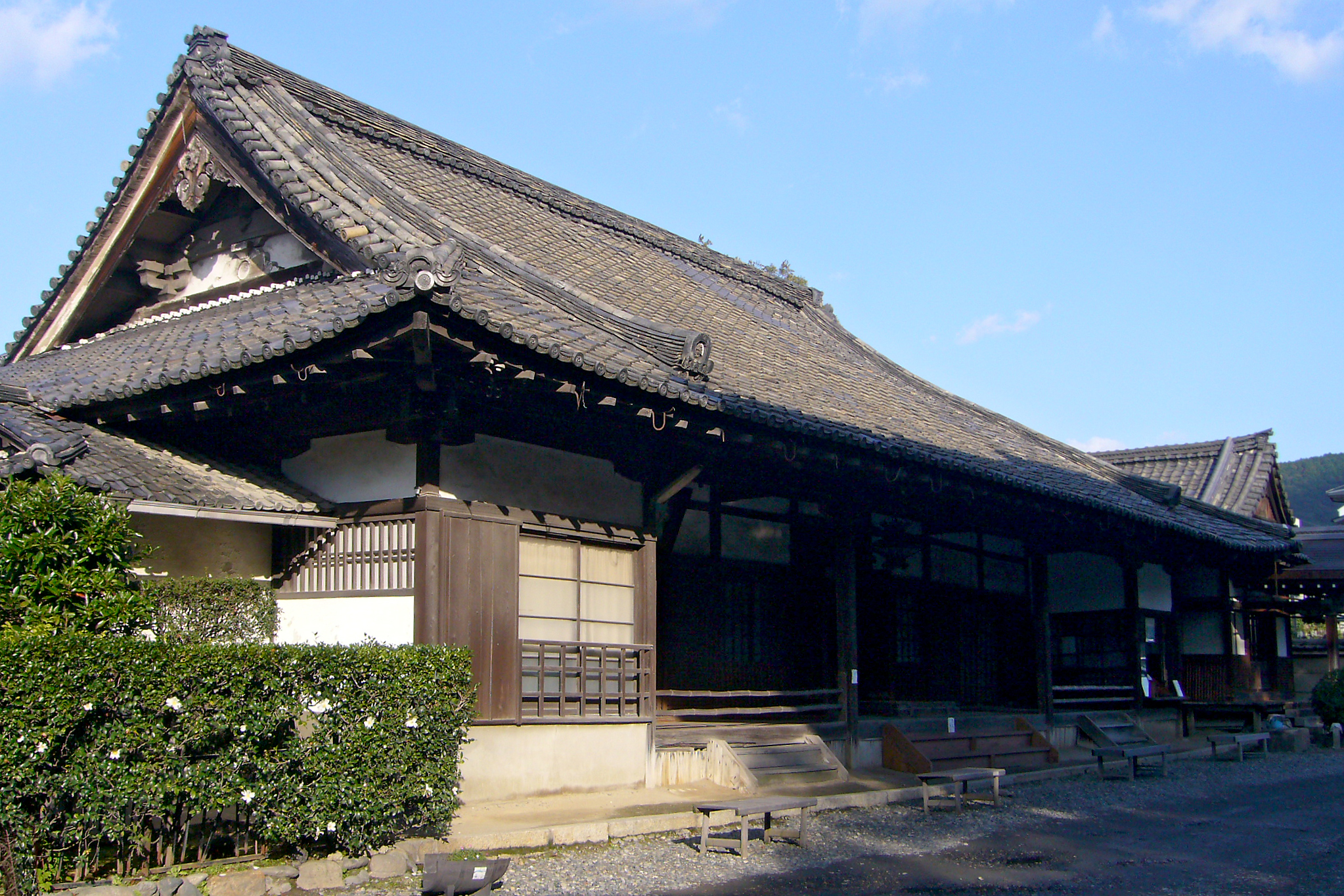 Hōkō-ji, a buddhist temple in Kyoto, Kyoto prefecture, Japan